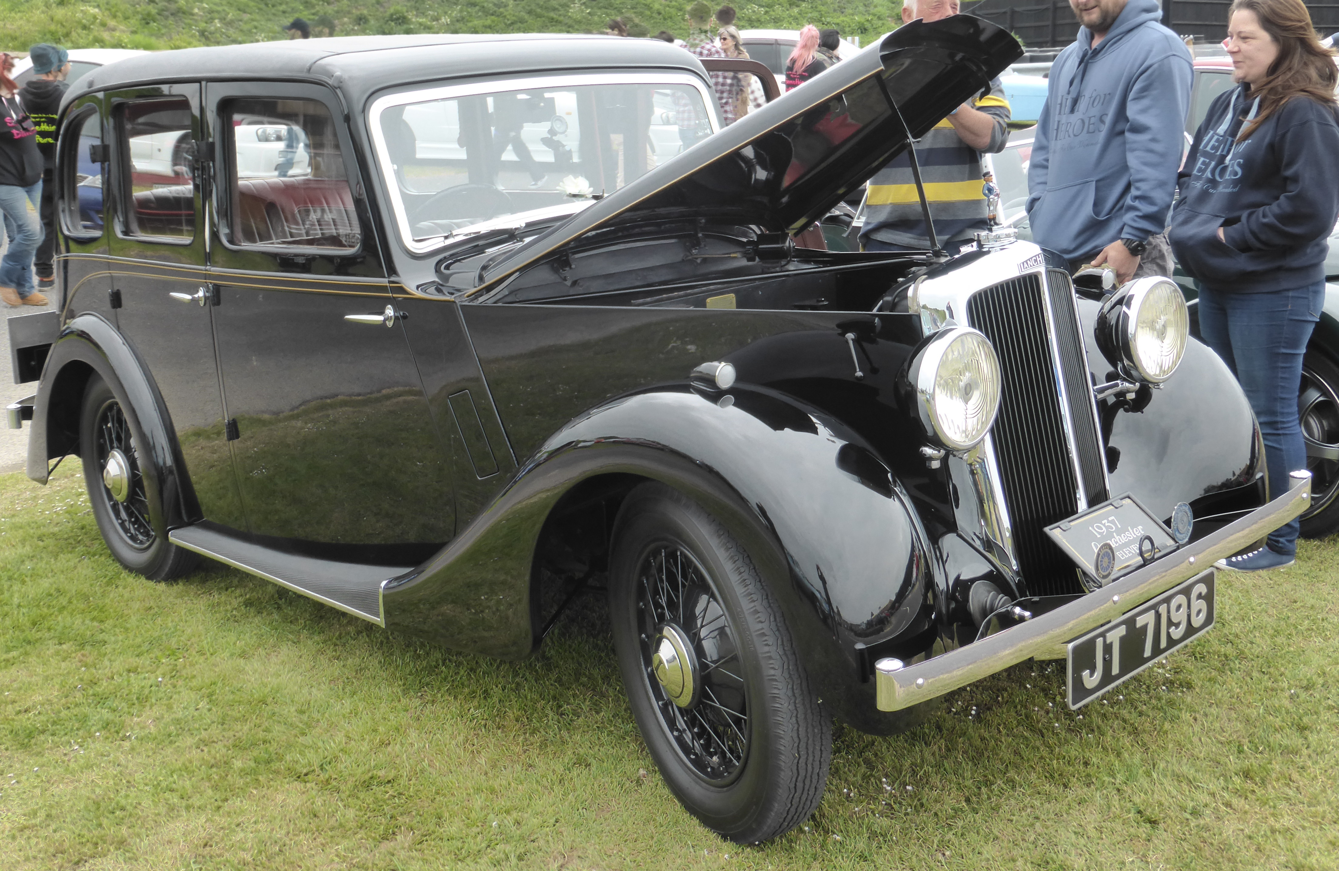 Haynes International Motor Museum Breakfast Club